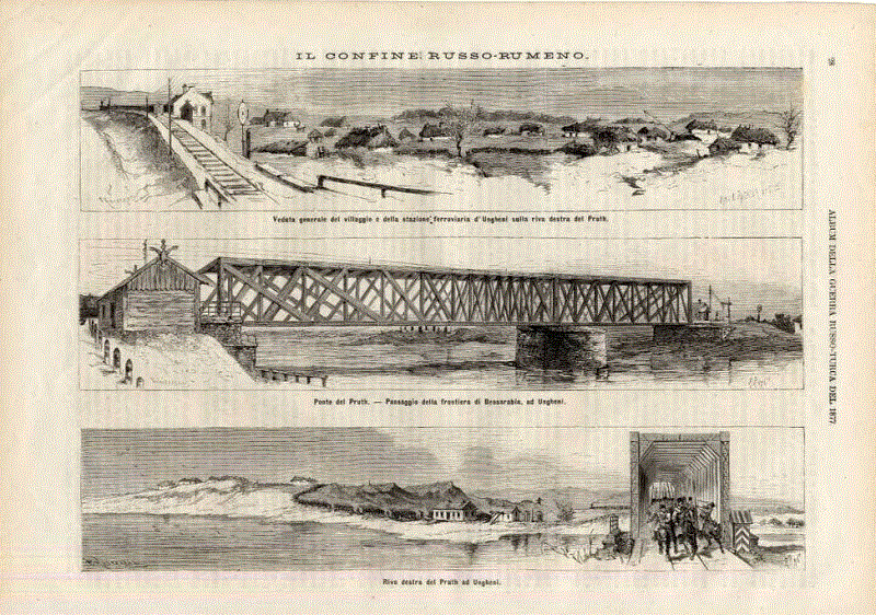 Eiffel Bridge, Ungheni. The bridge was opened on April 21 [O.S. April 9] 1877, just three days before the outbreak of the Russo-Turkish War (1877–1878). Wood engraving ca 1880. Reverse side is printed. Page size: 24.5 x 37 cm ( 9.6 x 14.5 ")